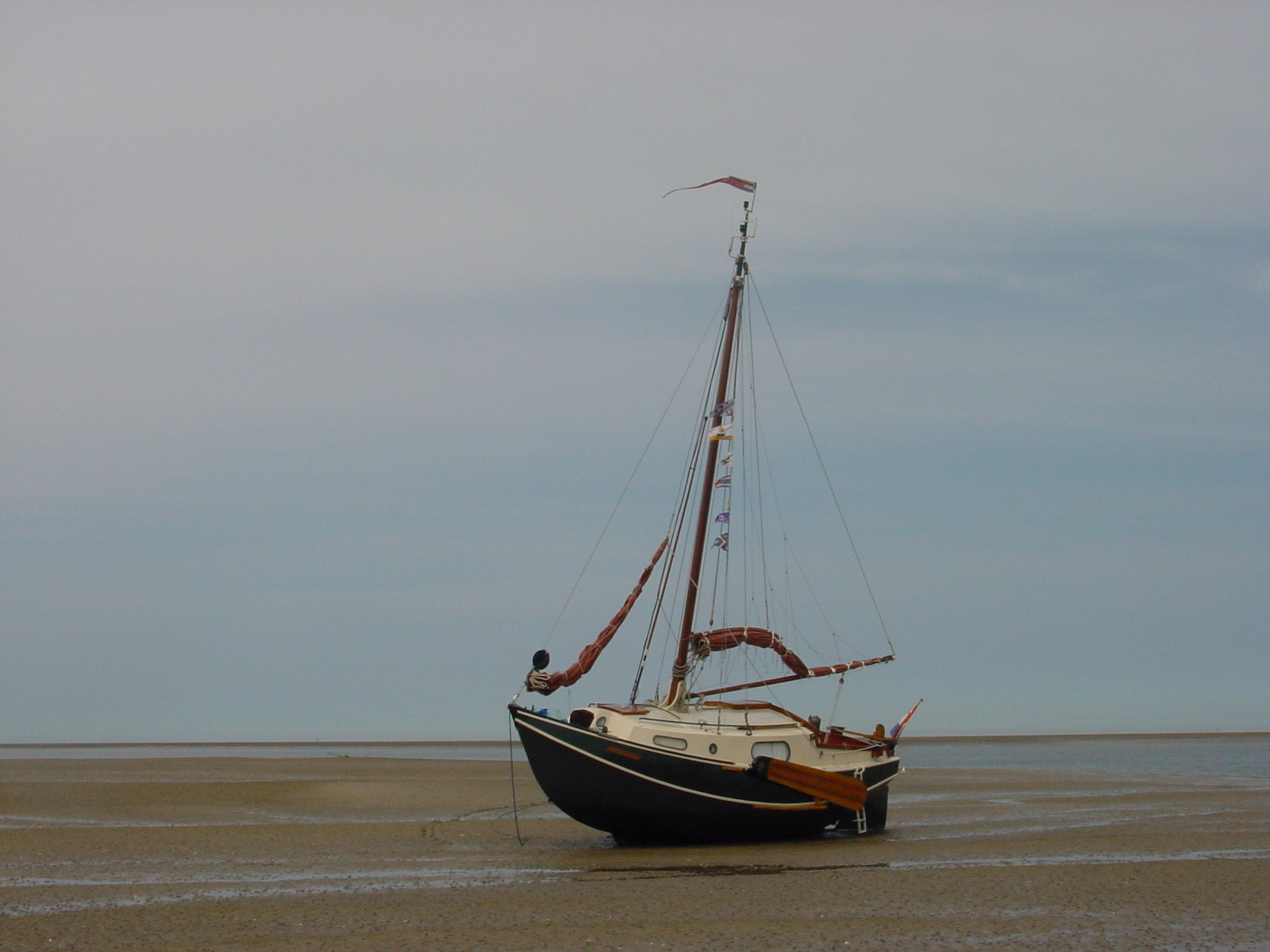 Baarda Zeegrundel, at low tide at the Dutch Wadden Sea